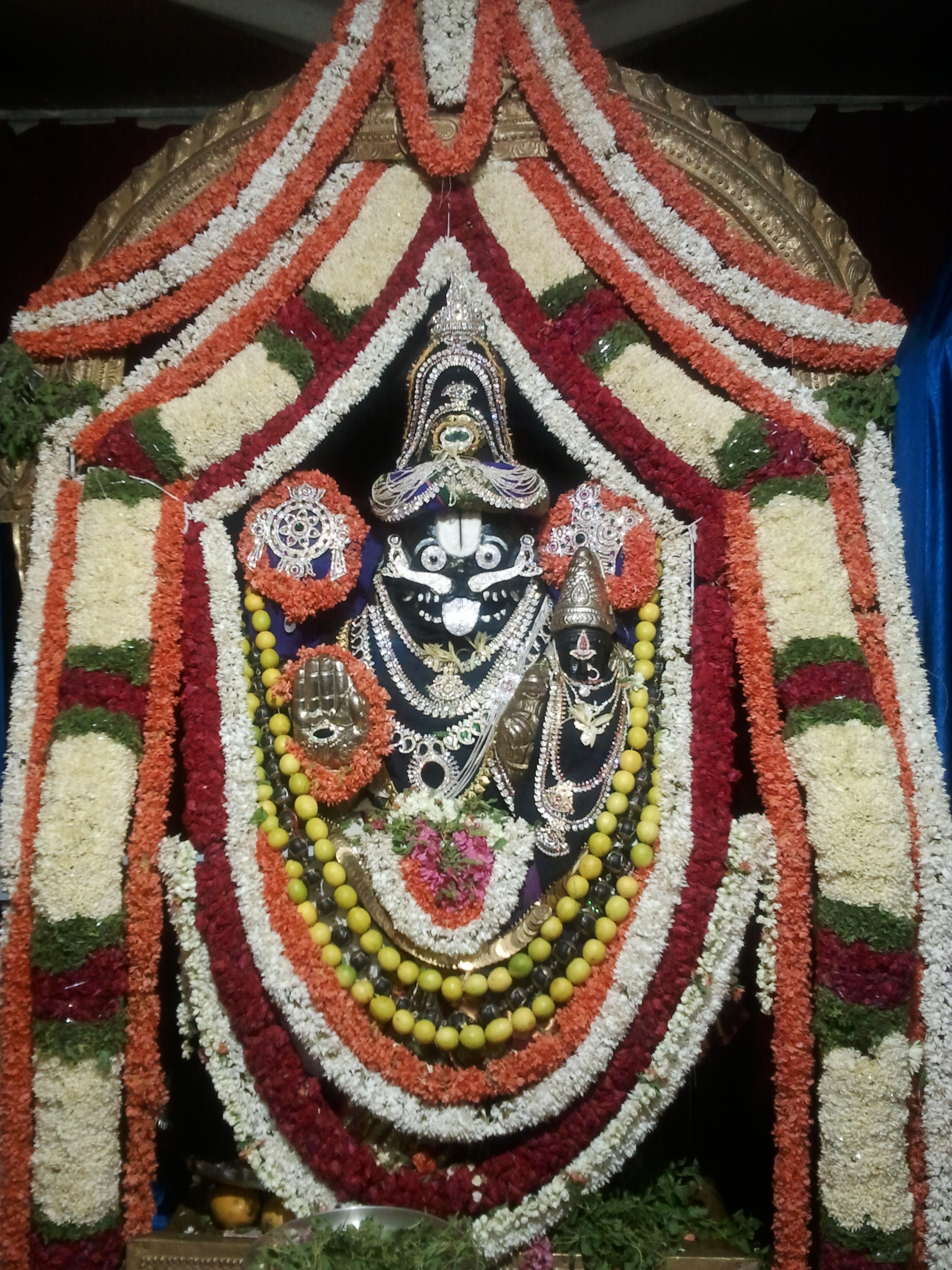 Lord Lakshmi Narasimha Swamy at Sri Hari Vaikunta Kshetra Bangalore